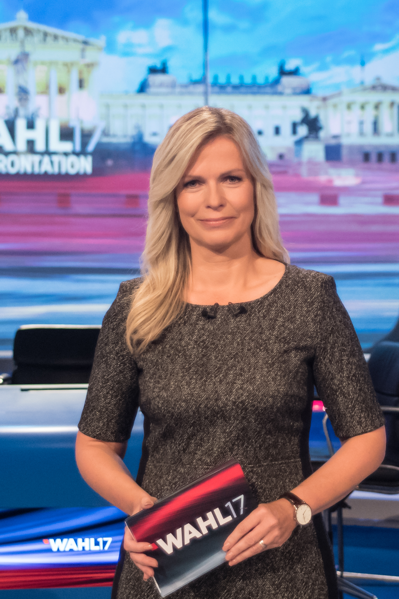 26/9/2017, Vienna, Austria, Chronik, ORF election debate. Christian Kern/SPÖ vs Ulrike Lunacek/Die Grünen. Image shows ORF presenter Claudia Reiterer.